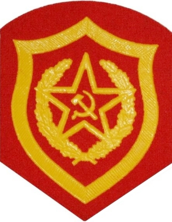 Emblem of the soviet armed forces 1960 to 1991, Soviet Army (military branches, service branches or armed services), sleeve badge (appliquéd) right hand upper arm (dress uniform/ parade uniform) to be used for the ranks OR1 to 8, and WO1 to 2, here: – “Land forces” general and “Mechanized infantry”, design 1985.